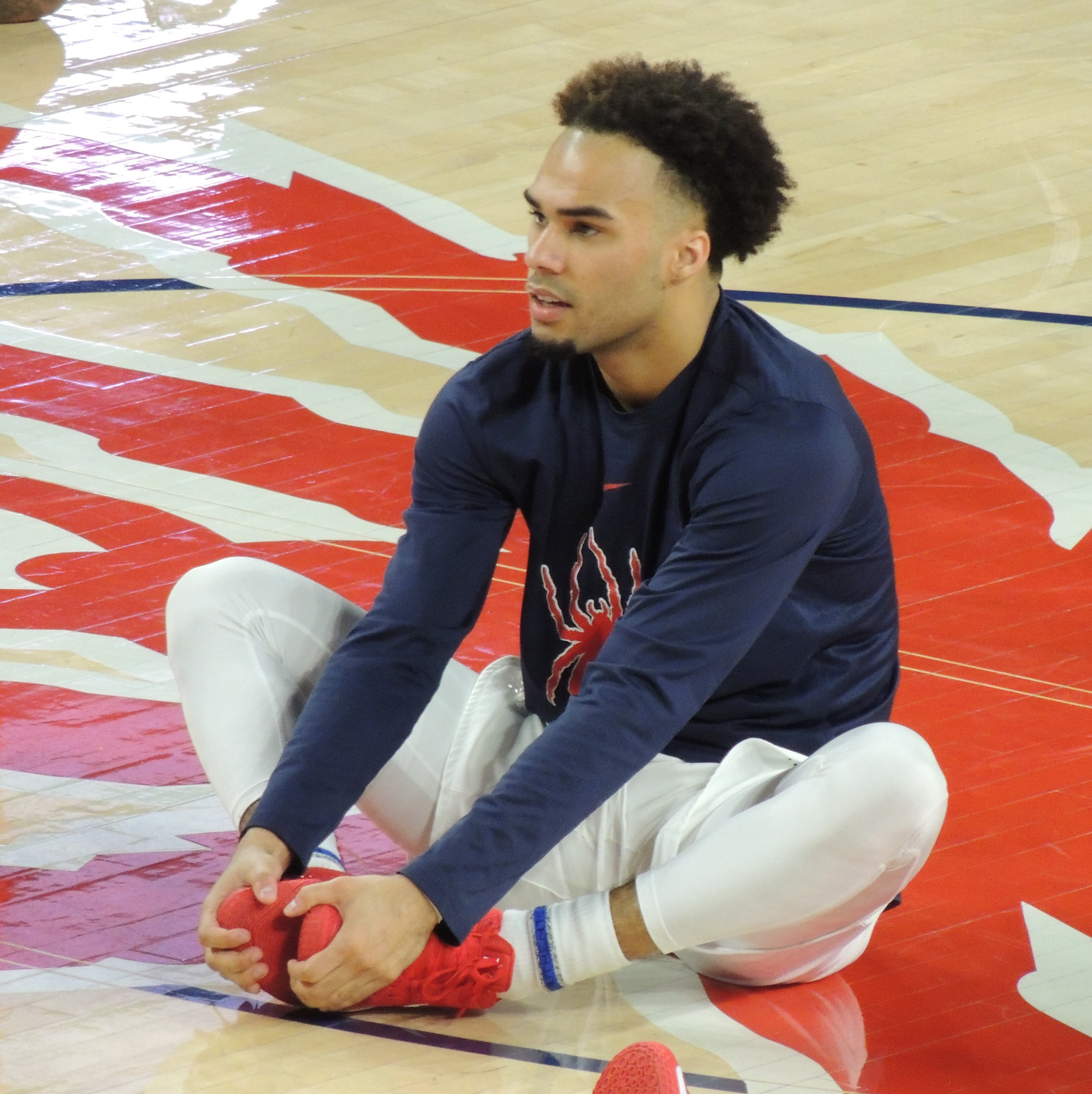 American college basketball player Jacob Gilyard warms up before a Richmond Spiders game.